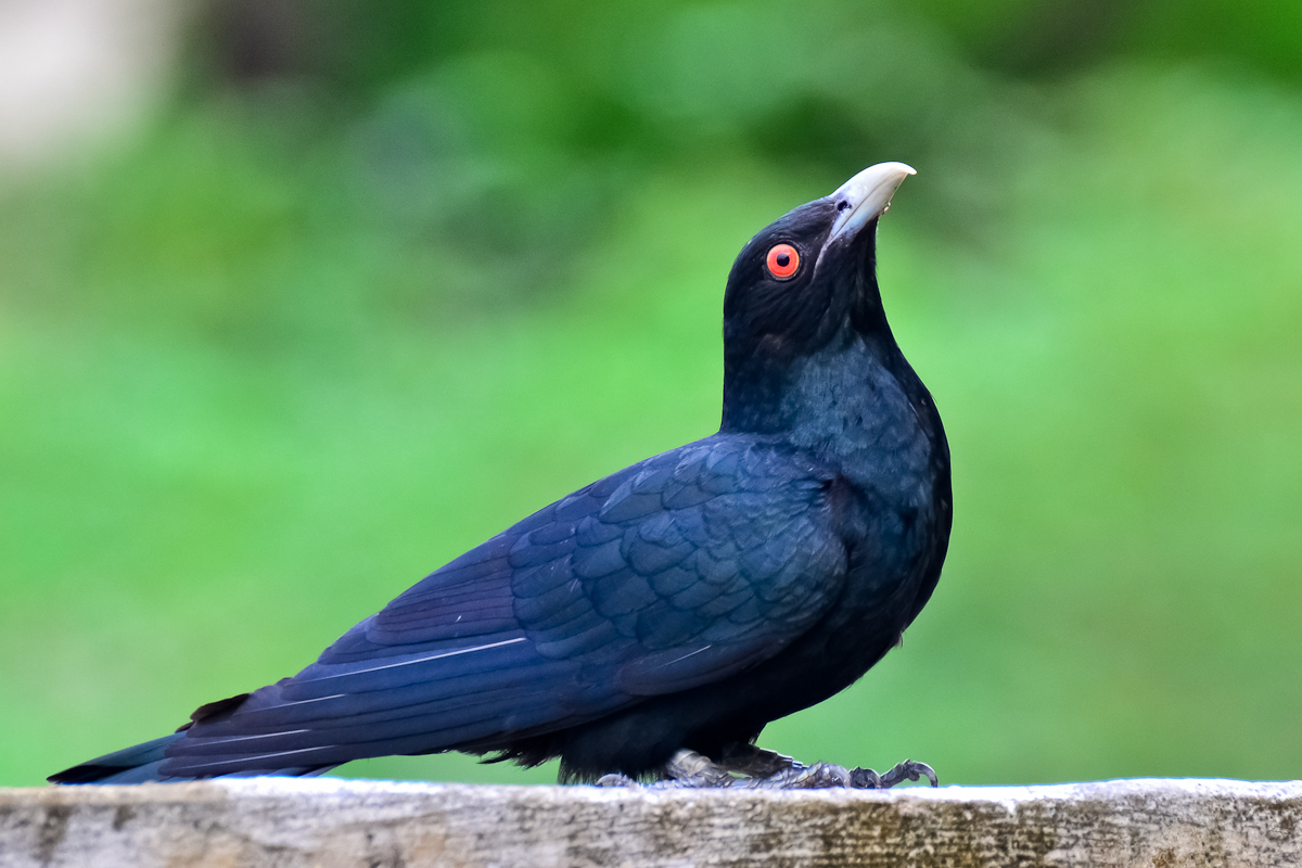 Asian Koel (Eudynamys scolopaceus) Male, in Tirunelveli, Tamil Nadu, India.